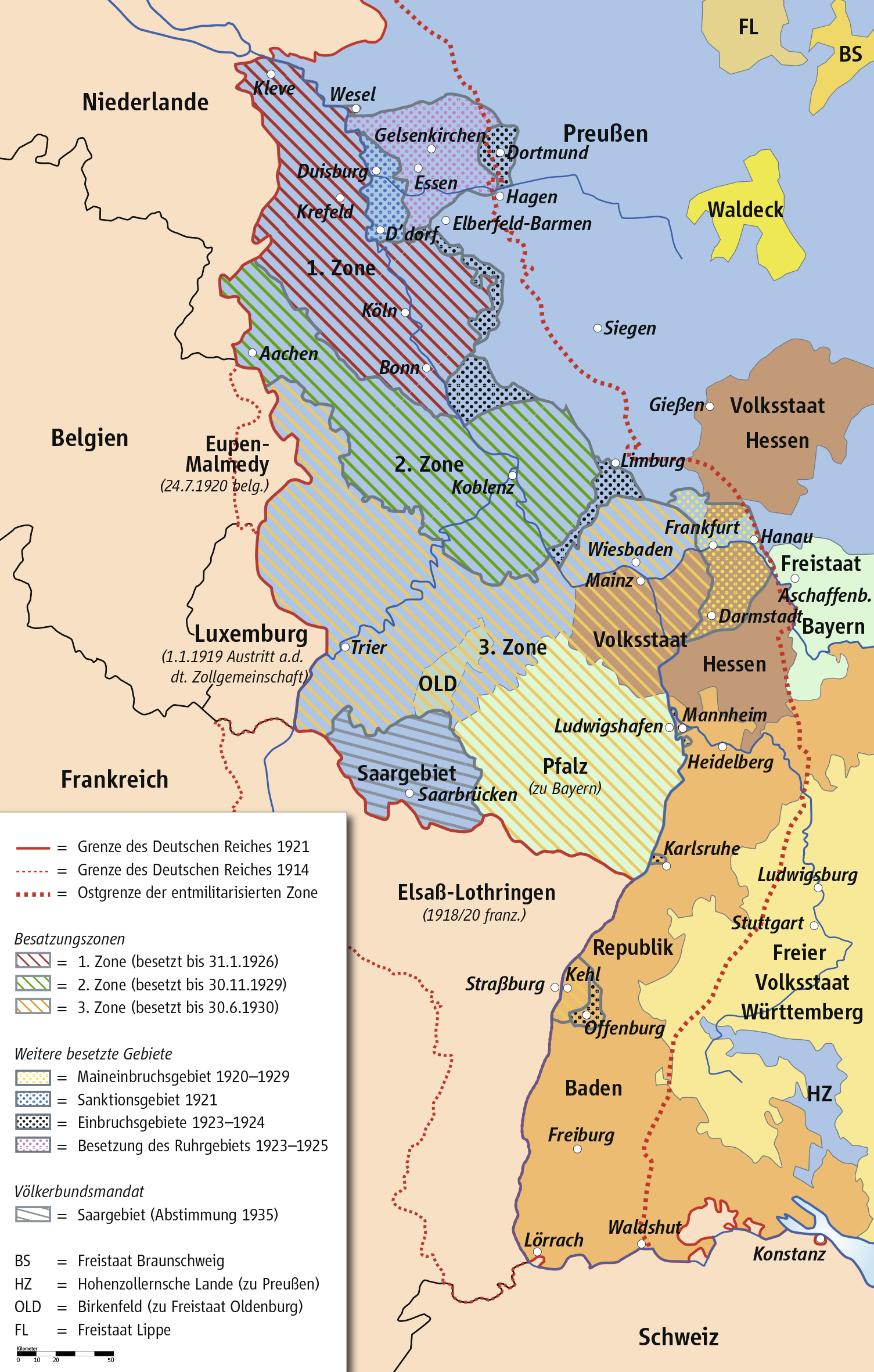 Map of the Occupation of the Rhineland